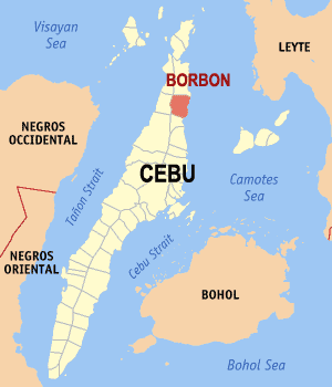 Map of Cebu showing the location of Borbon